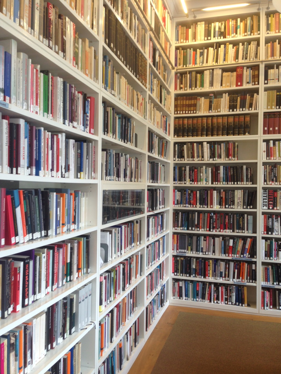 Book shelves in the reading room of the Wiener Library for the Study of the Holocaust and Genocide in London, U.K.